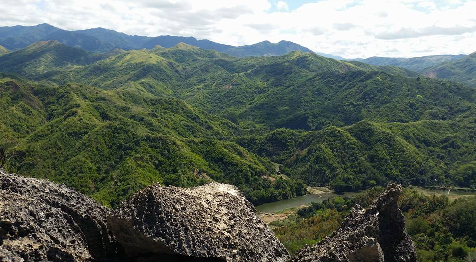 Mt. Binacayan is the mountain at the right side of Pamitinan Protected Landscape